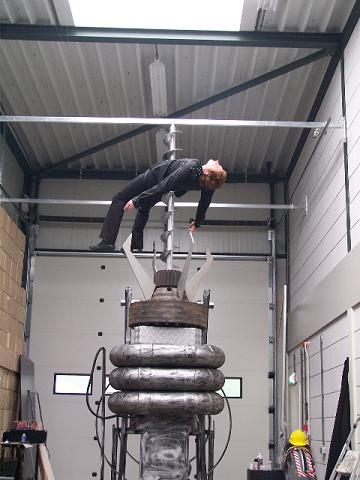 Grand Illusionist Christian Farla practices his illusion Drill of Death inside his warehouse near Rotterdam.